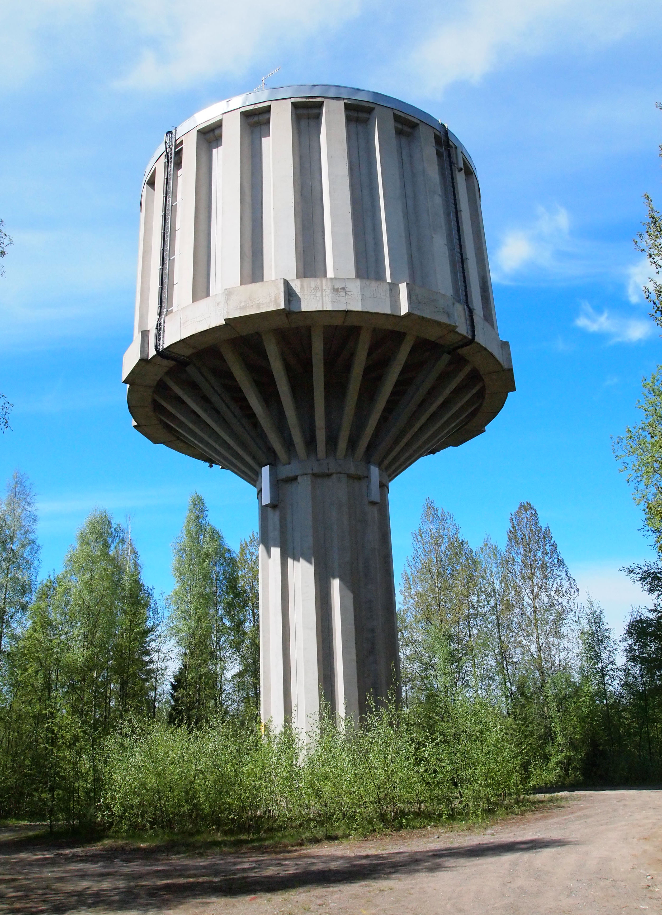 Kangasvuori water tower on May 2012, Jyväskylä. (On november 2012 the tower crashed down.)